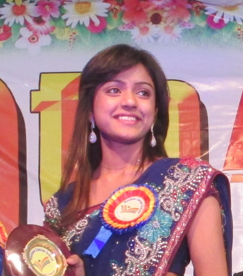 Vithika Sheru receiving a memento by director Dr.Prathibha Penumalli and correspondent Dr.A.Madhusudhana Reddy in the 9th Annual Day celebrations of Rainbow Concept School, Mahabubnagar, Telangana State.